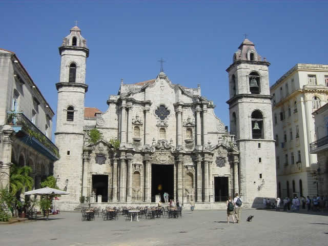 Colonial Baroque facade of Catedral de La Habana — in Old Havana, Cuba.